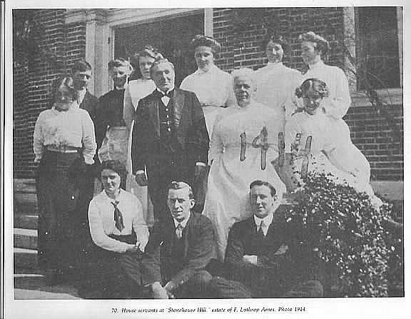 House Servants at Stonehouse Hill, estate of F. Lothrop Ames, 1914